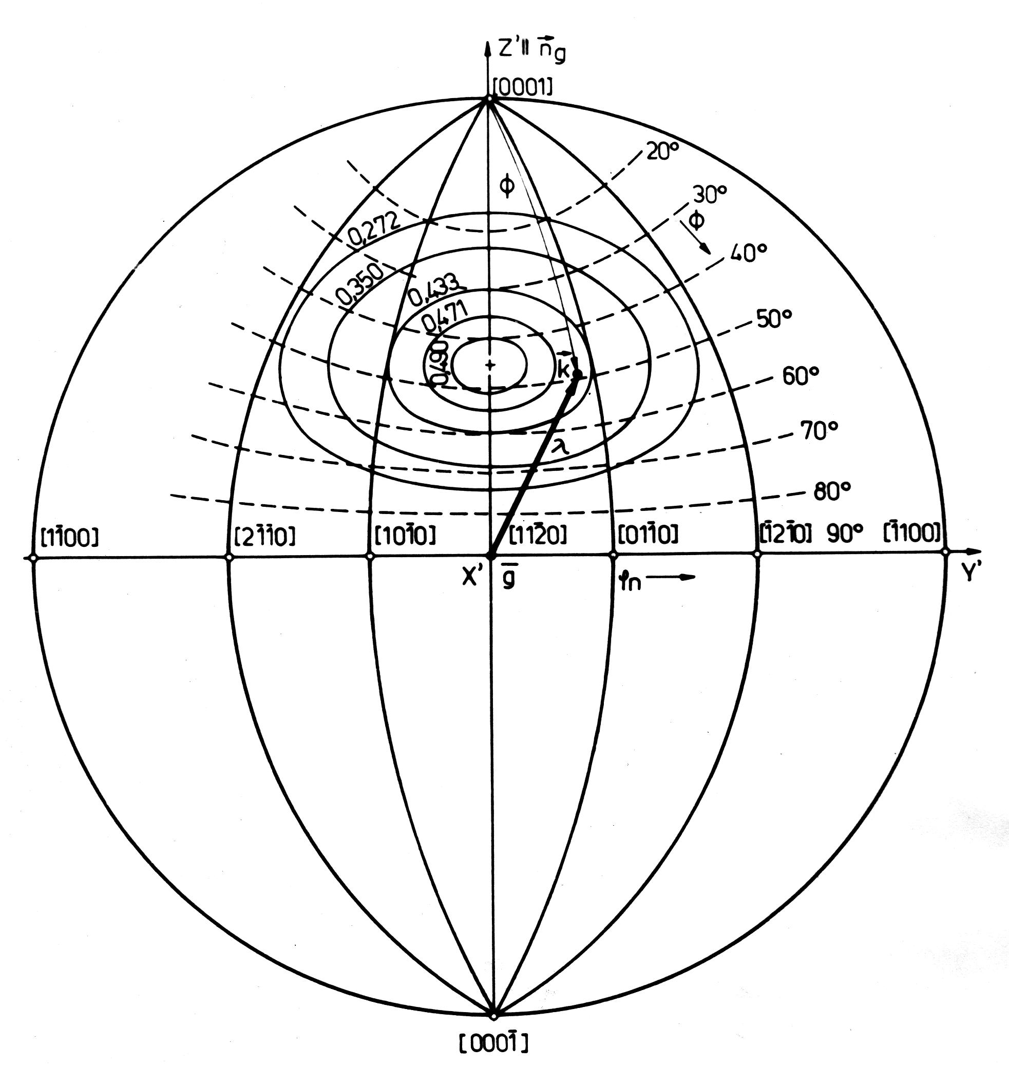 System of coordinates connected with the glide system and inverse pole sphere